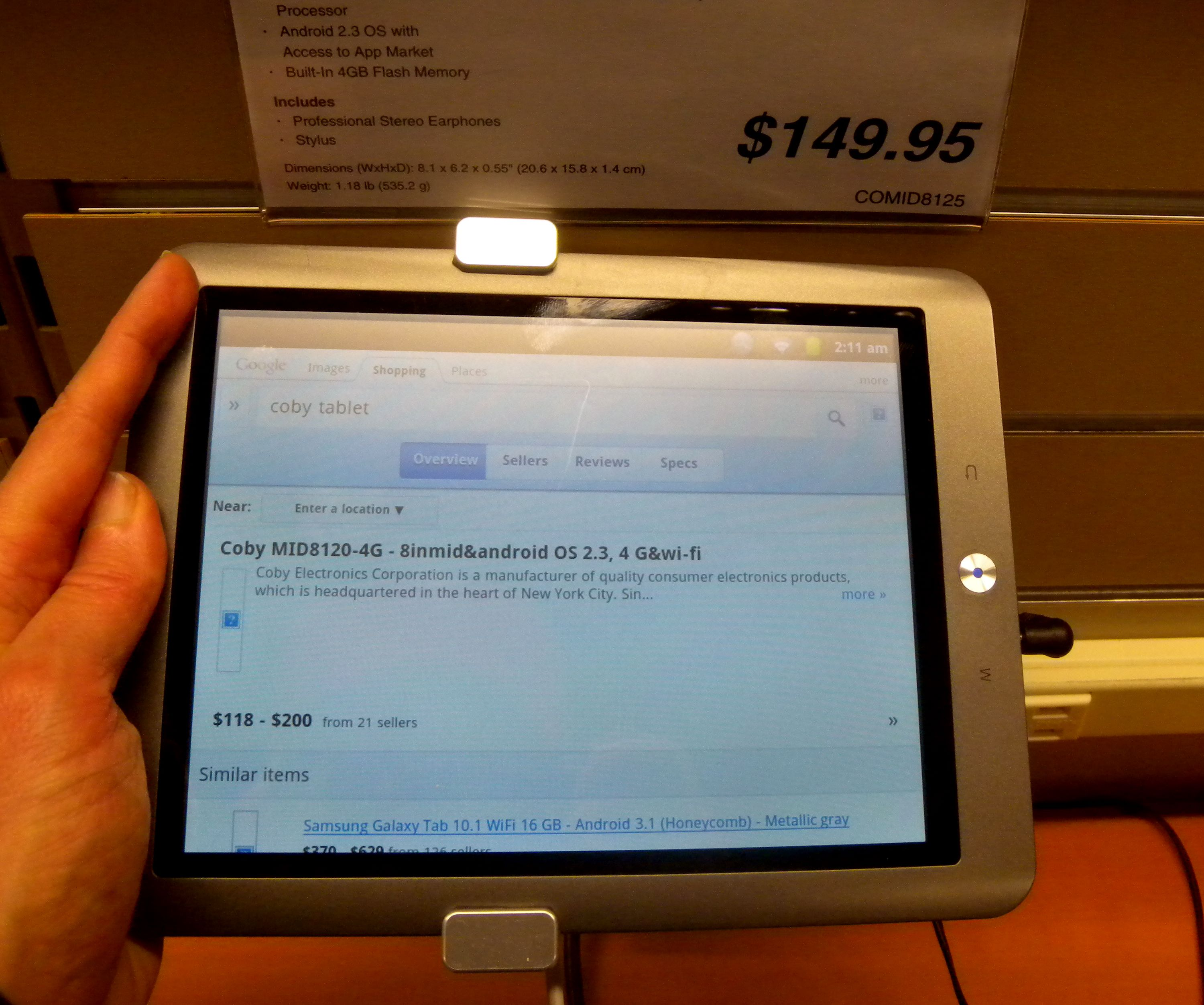 8 inch tablet for sale in northwestern showroom of B&H Photo.